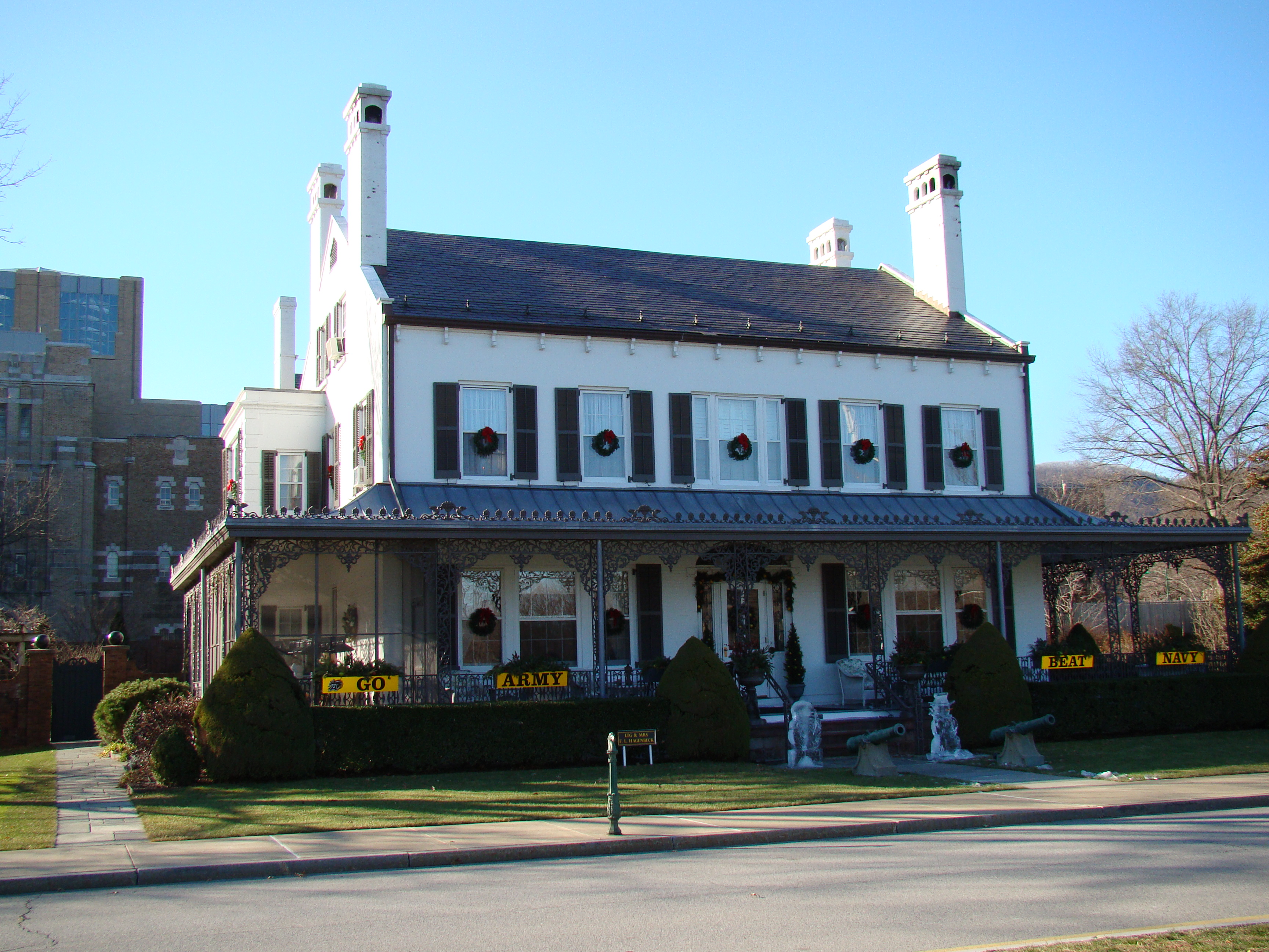 The United States Military Academy Superintendent's Quarters, West Point, NY